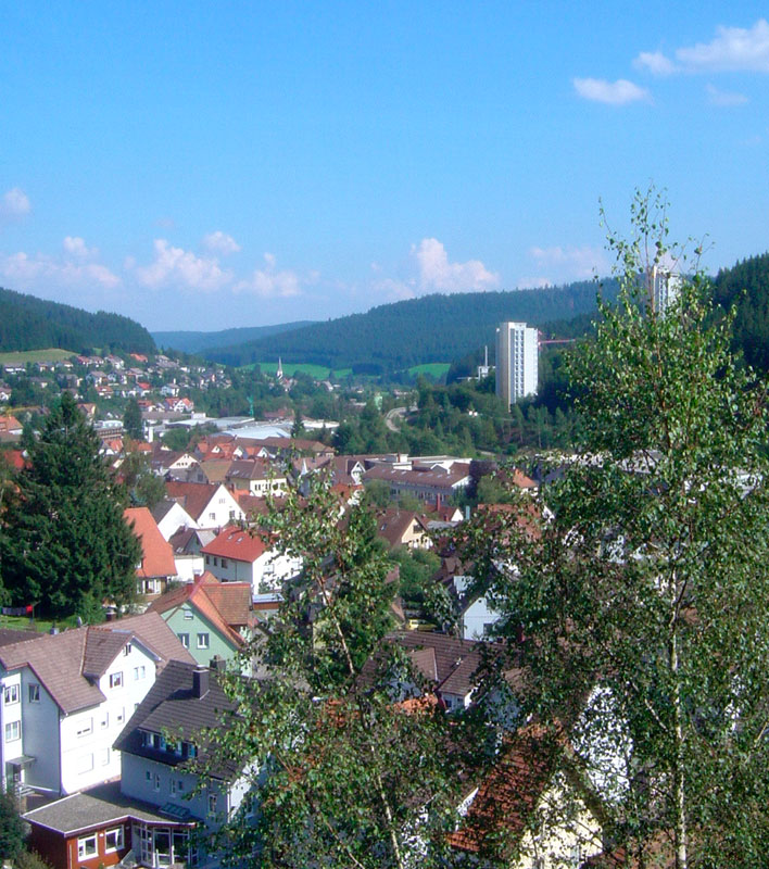 Aerial view of the small south-western German town Furtwangen in the Black forest.